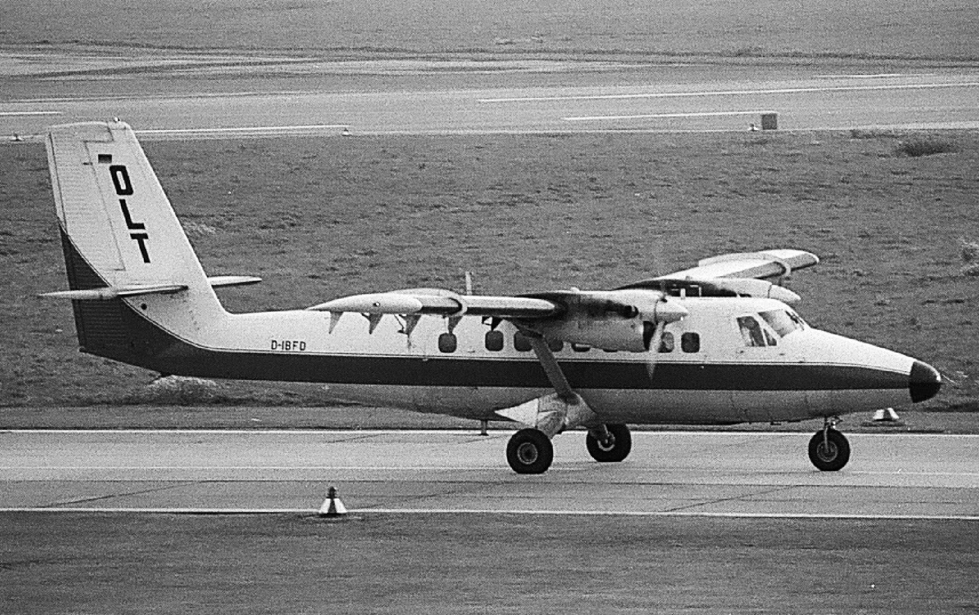 DHC-6 Twin Otter D-IBFD of OLT Ostfriesische Lufttransport at Flughafen Bremen, 12.9.1974